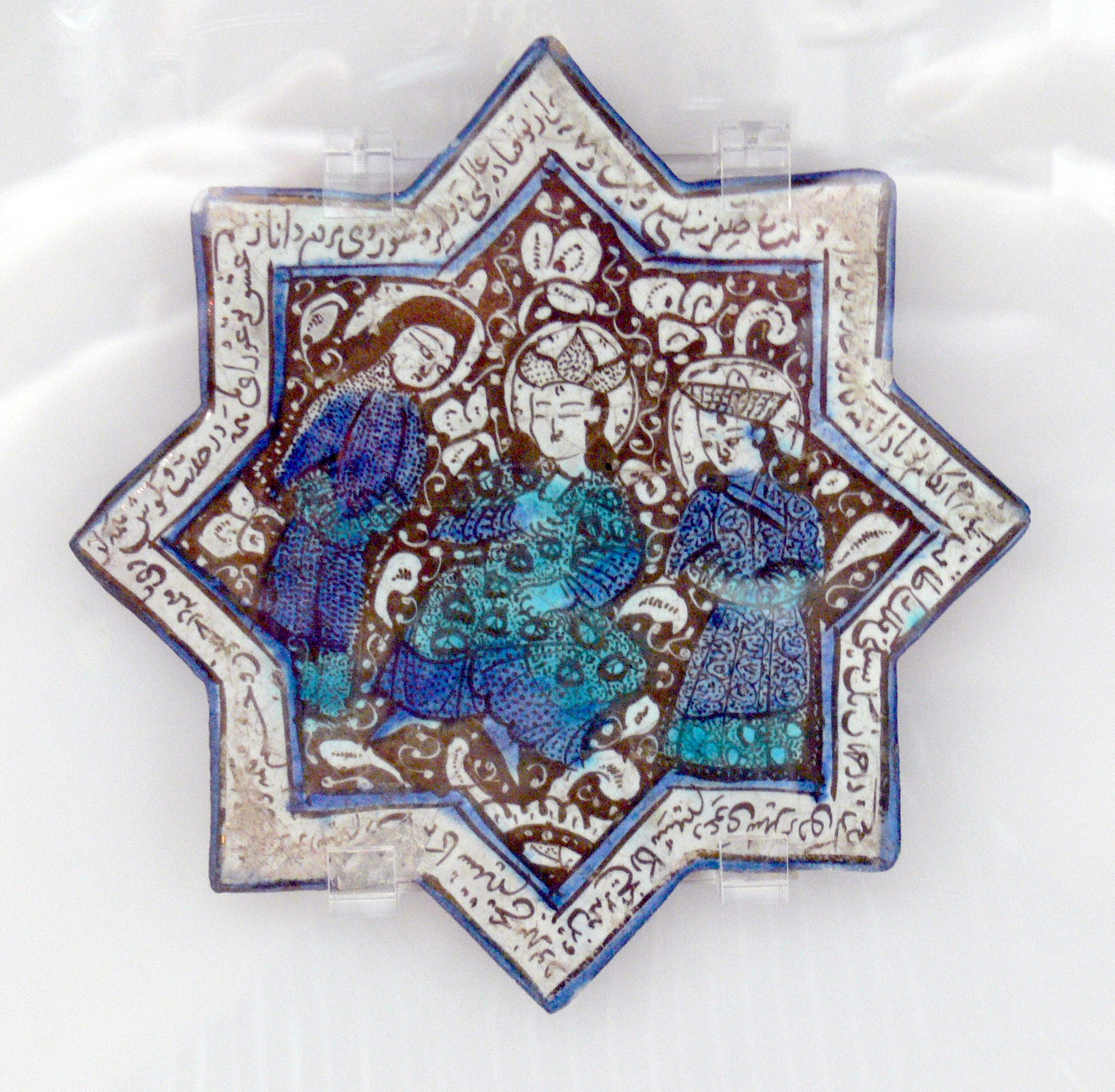 Museum of Islamic Art ( Berlin ). Star formed tile with sitting king talking to others ( 14th century AD ), from Kasan ( Iran ), Inv.Nr I 3871.